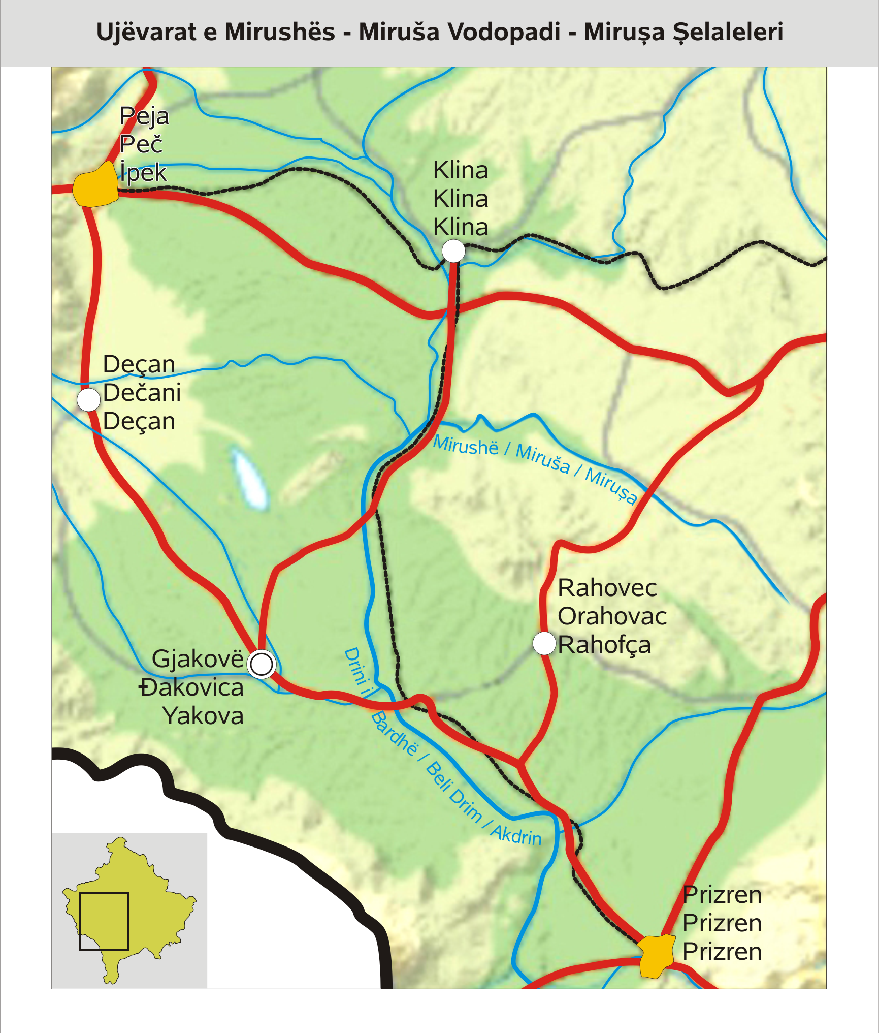 Area of Mirusa Waterfalls in Kosova.